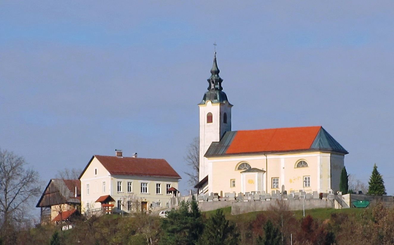 Kopanj Hill in Velika Račna, Municipality of Grosuplje, Slovenia with the rectory (left) and Assumption Church (right).